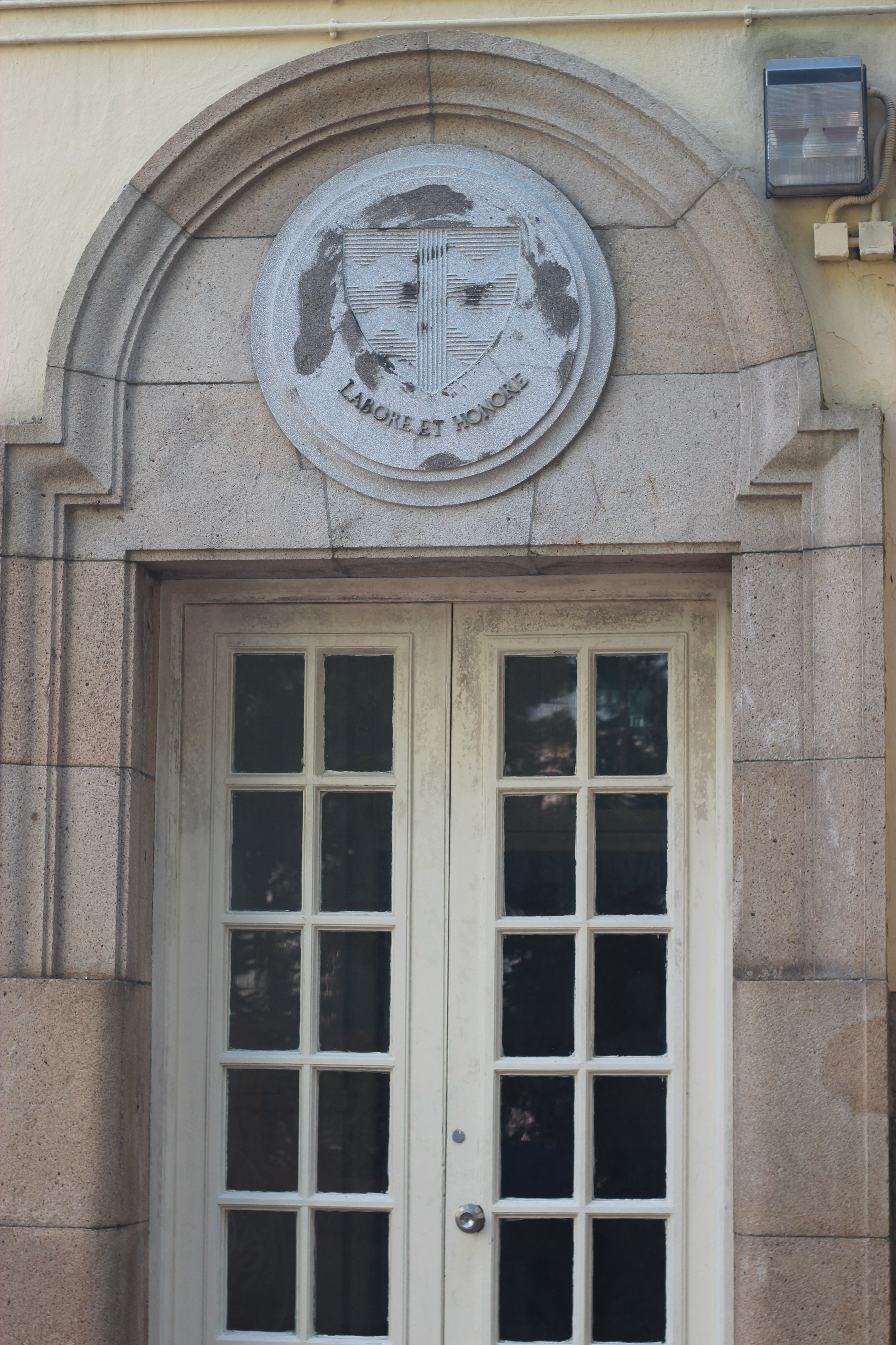 A scene at Former Quarry Bay School in Hong Kong Island, Hong Hong.